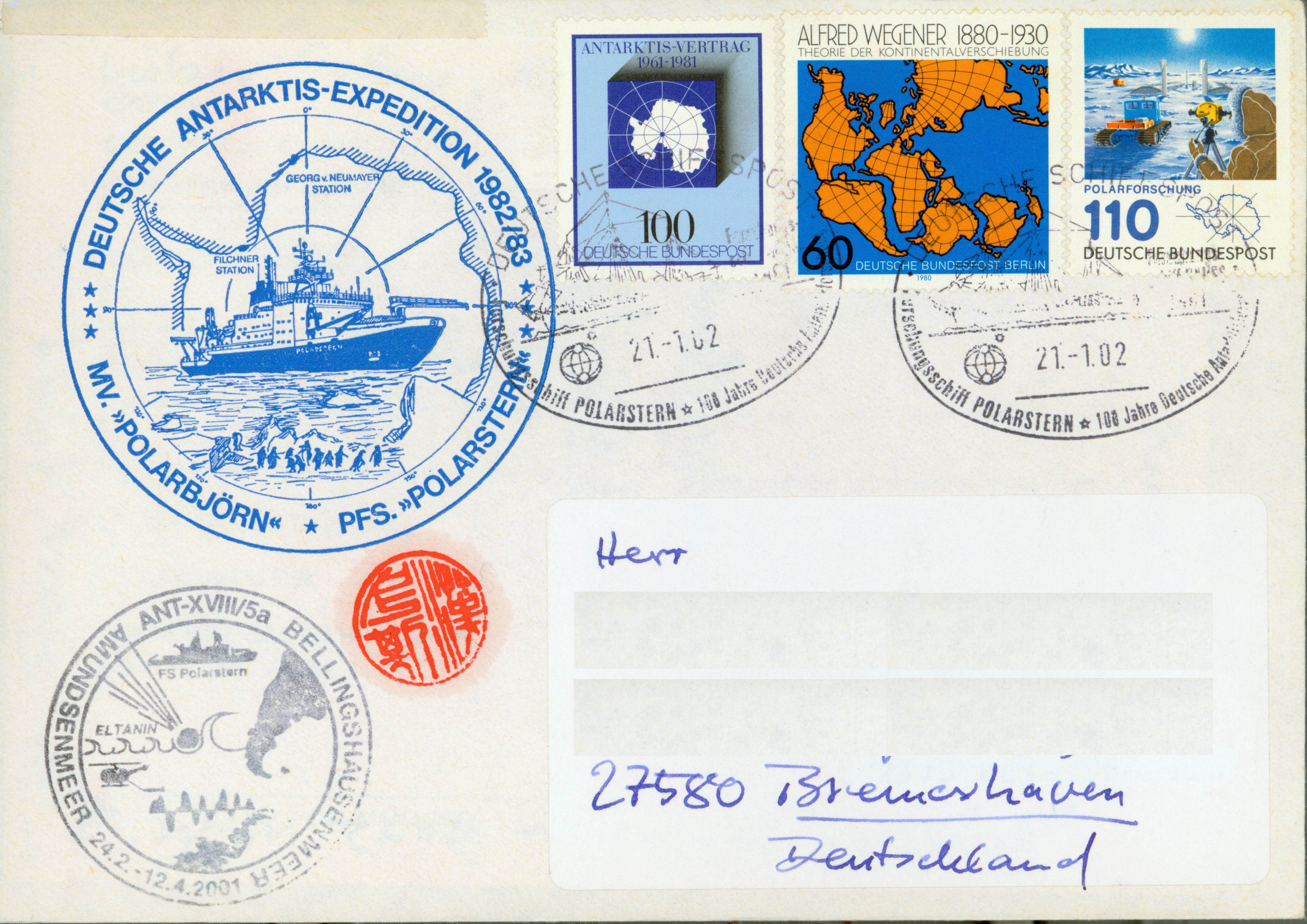 Envelope of letter send from polar research expedition